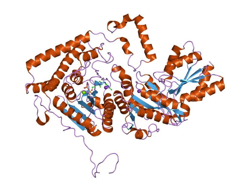 Cartoon representation of the molecular structure of protein registered with 1dtw code.